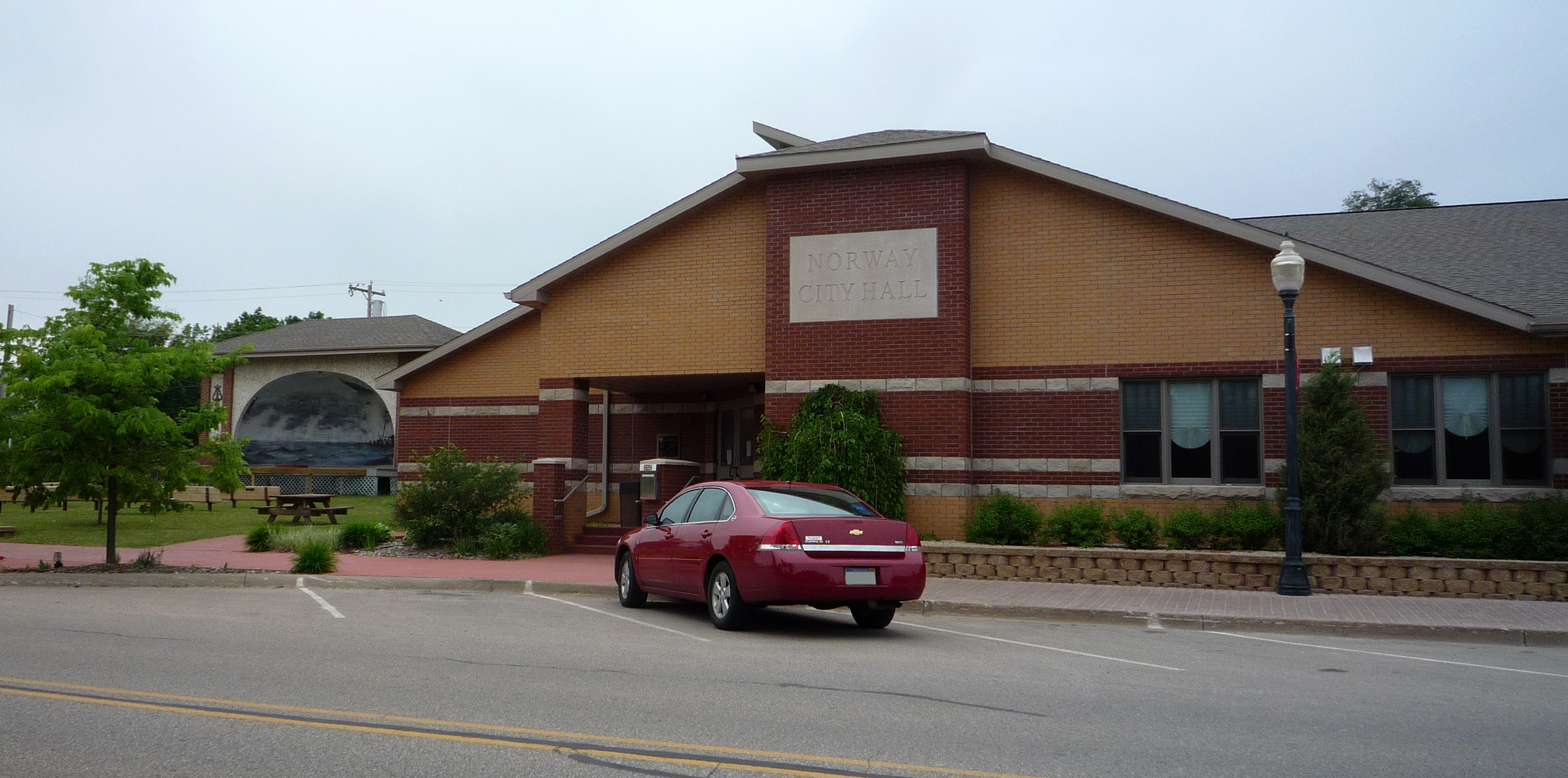 City Hall, Norway, Michigan, USA.